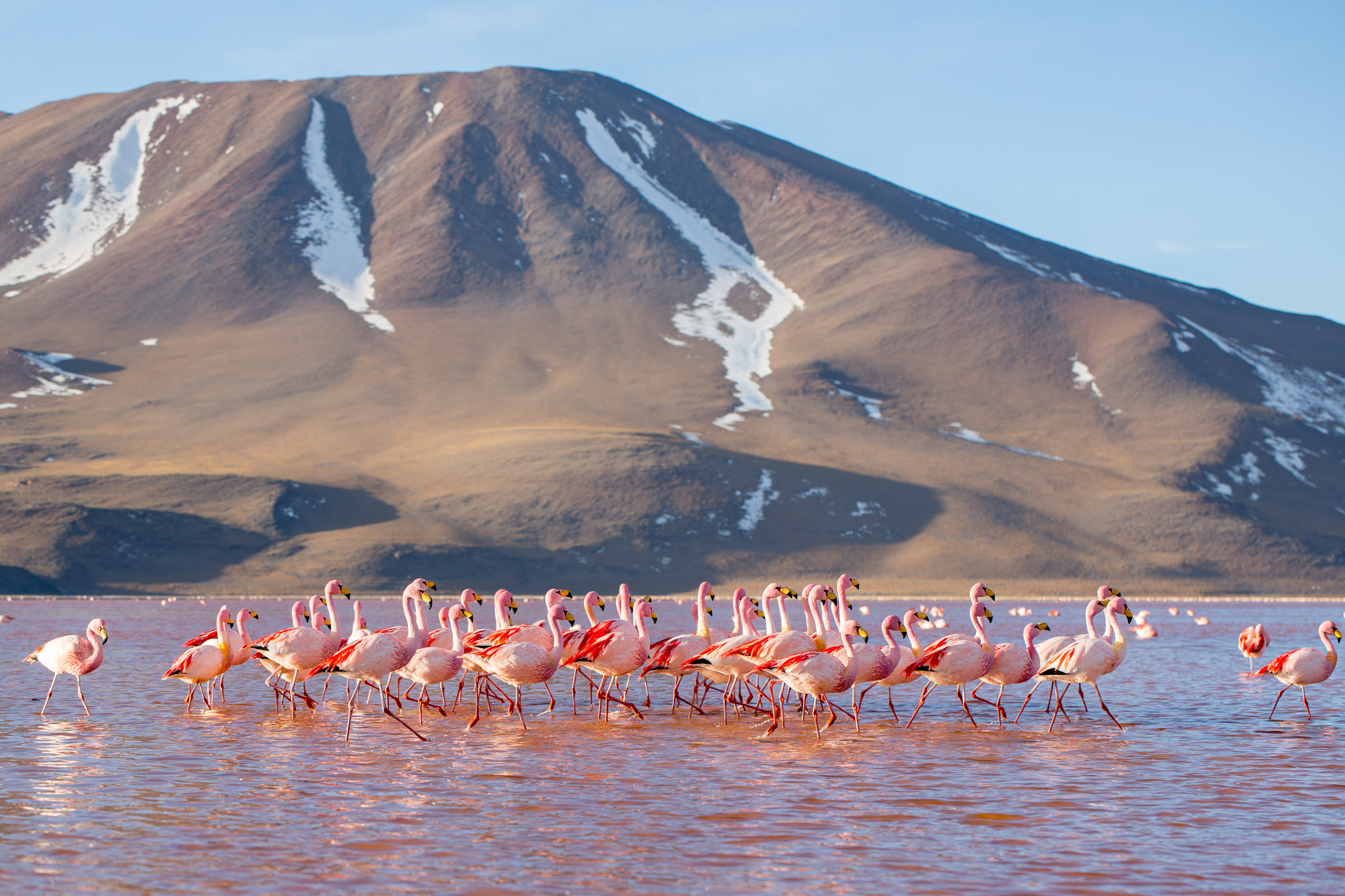 A group of James flamingoes in the Laguna Colorada in southern Bolivia. Volcano in the background.